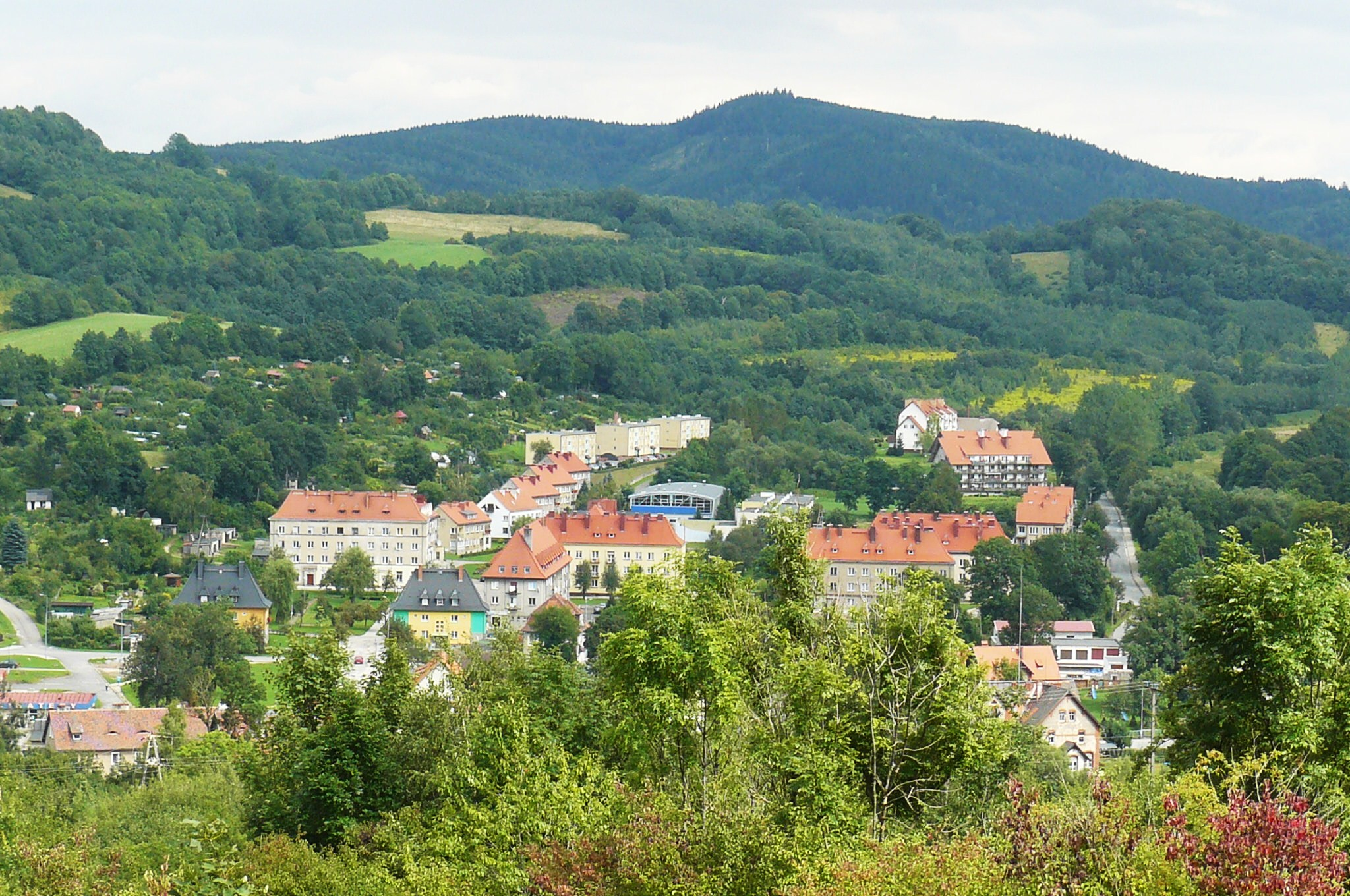 Wojcieszow Gorny.